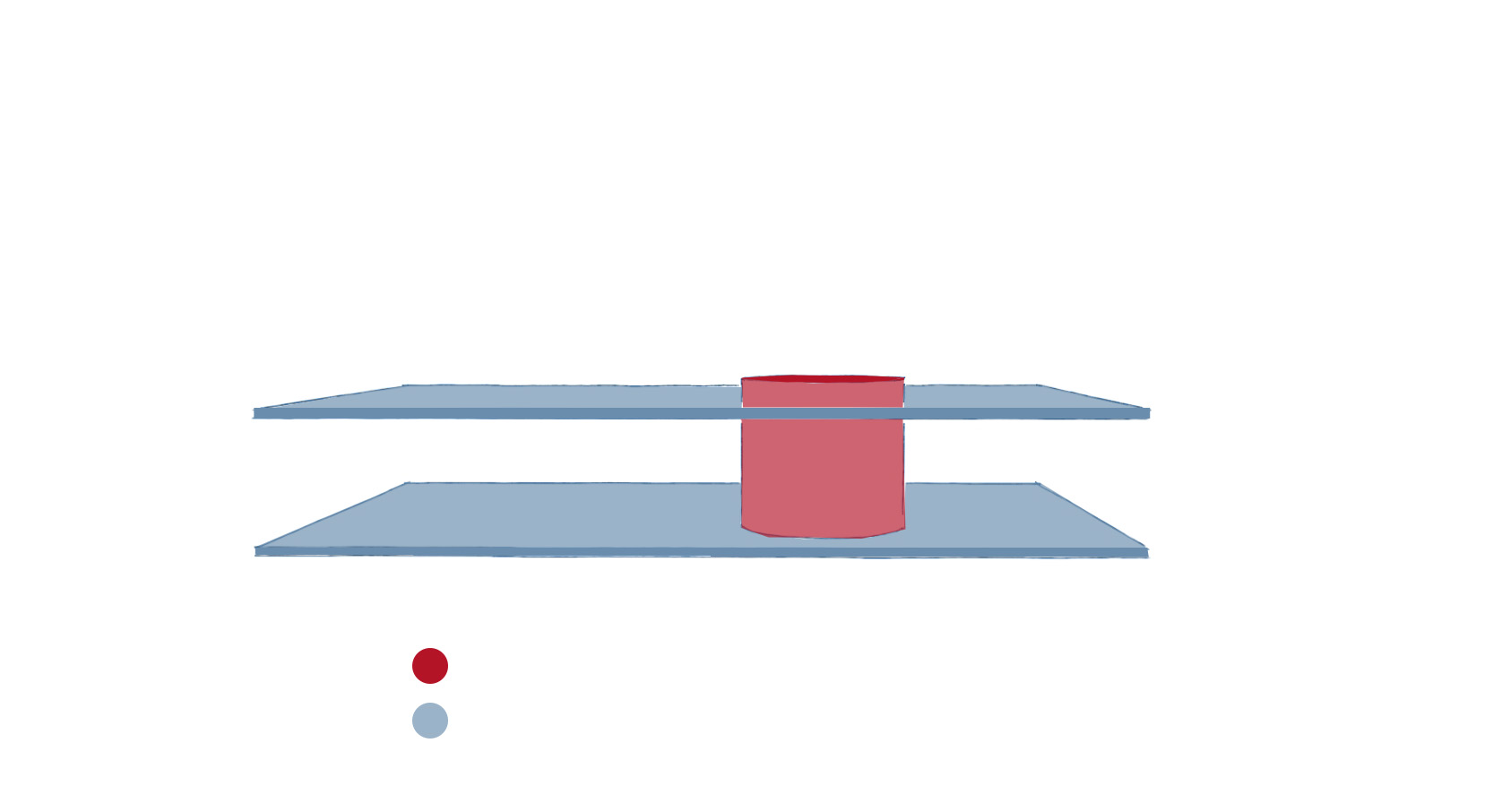 this is the structure